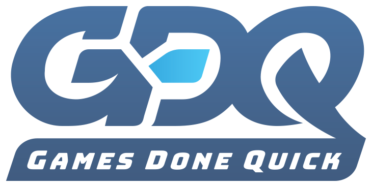 The new logo of Games Done Quick, first used in 2018.